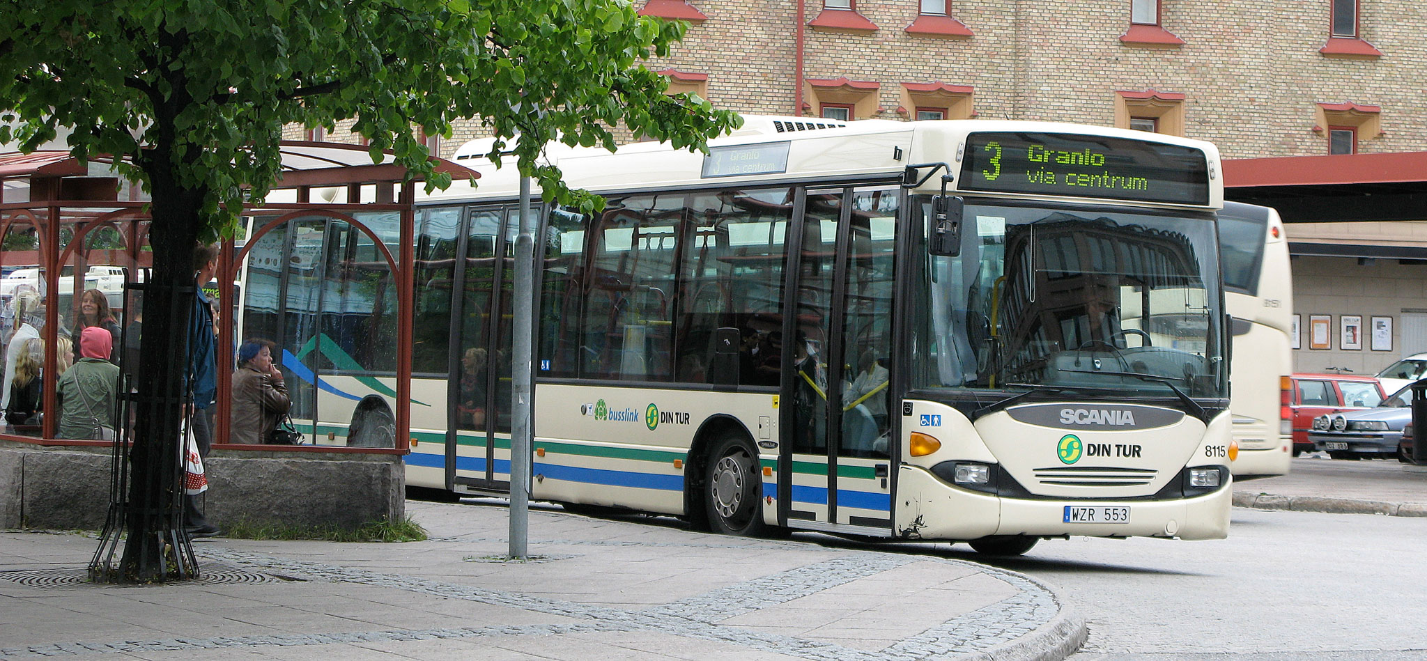 Din Tur bus in the Sundsvall hub (near the Kulturmagasinet). Scania OmniCity or OmniLink.